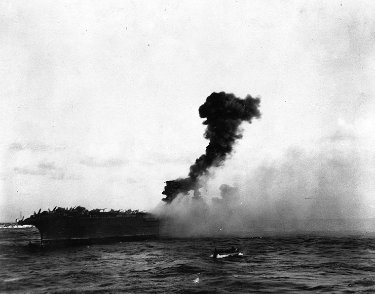 View of an explosion amidships on the U.S. Navy aircraft carrier USS Lexington (CV-2), while she was being abandoned during the afternoon of 8 May 1942. This may be the explosion reported to have taken place at 1727 hrs, which was followed by a great explosion aft as stowed torpedo warheads detonated on the hangar deck. Note the whaleboat underway in the foreground.